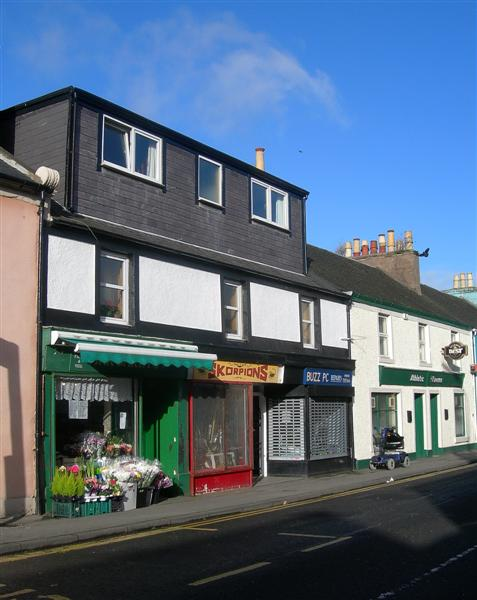 Small Businesses Girvan still has many small independent businesses in its town centre. This photo of Dalrymple Street shows a florist, a music shop, a computer business and a pub.